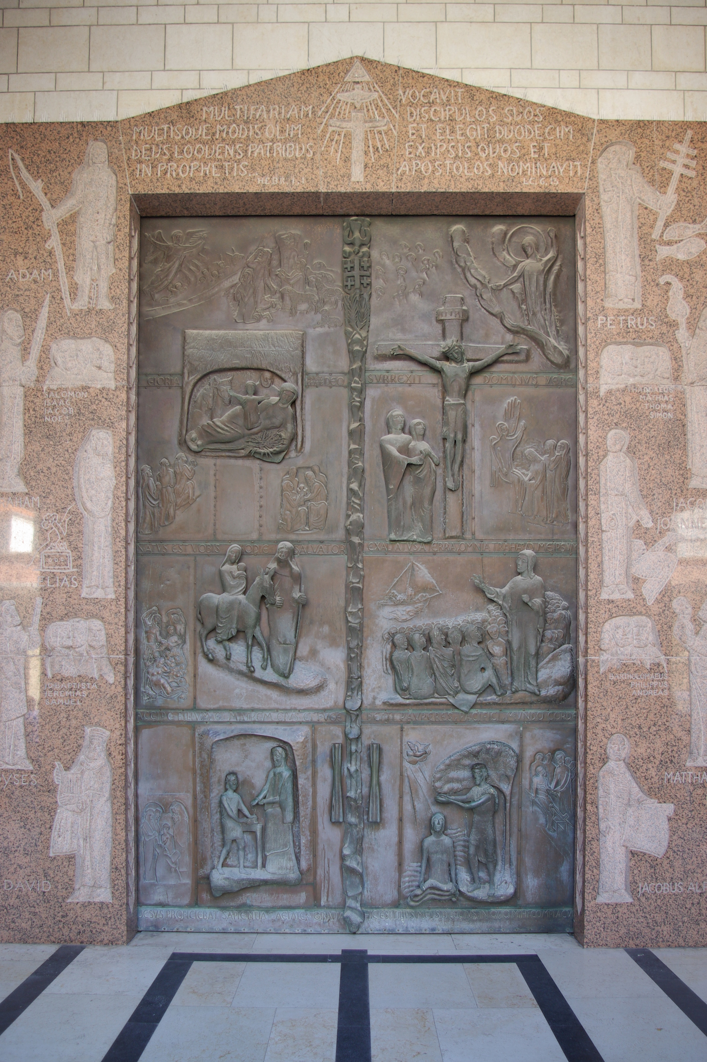 Church of the Annunciation, Nazareth, Israel